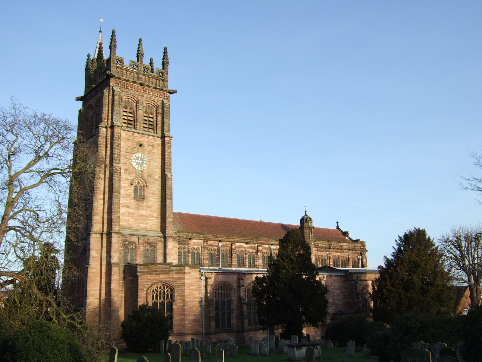 All Saints' parish church, Hertford, Hertfordshire, seeon from the south